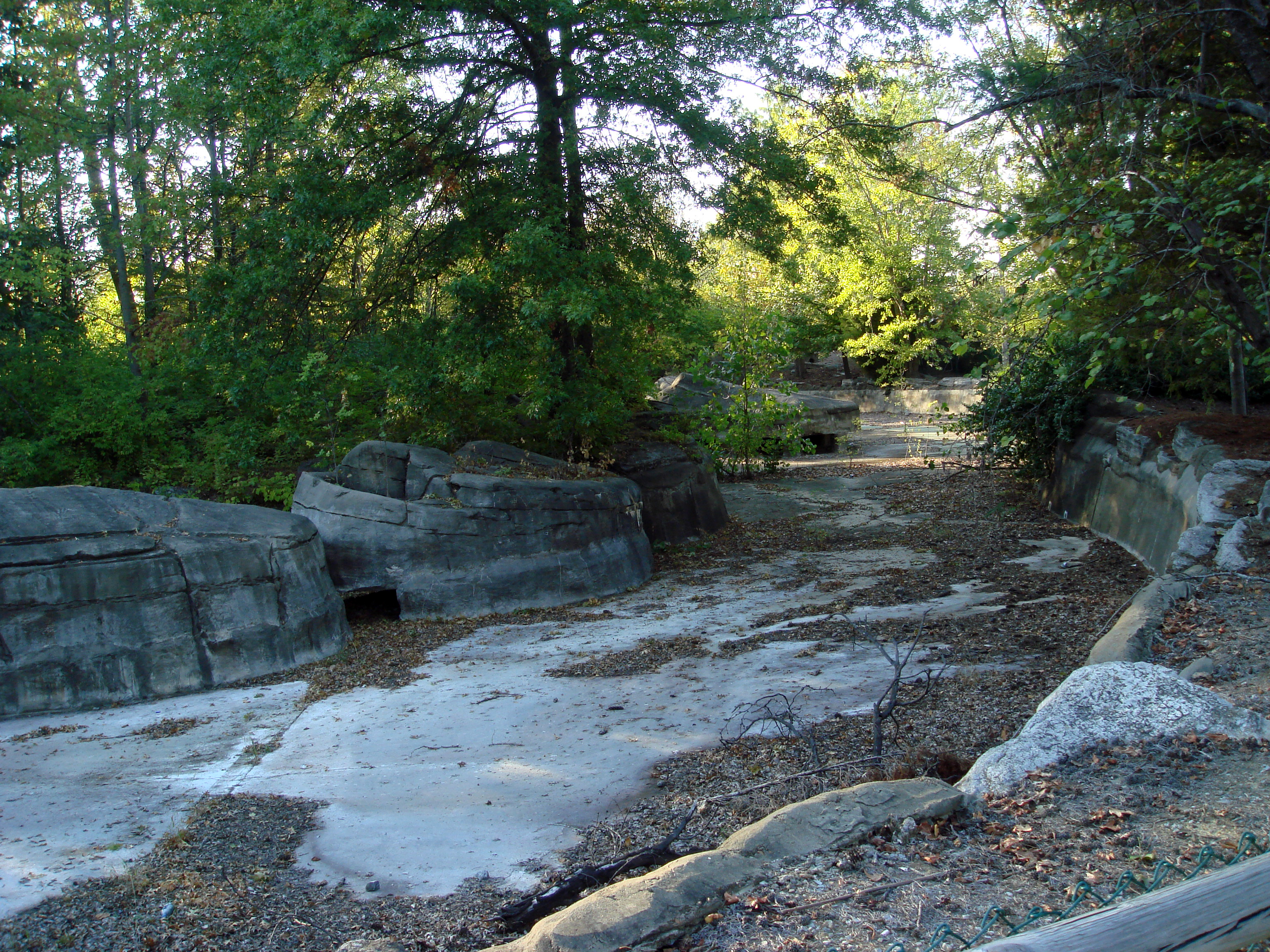 The leftover ruins of the defunct Opryland USA (in Nashville, Tennessee), which took its name from the Grand Ole Opry music venue (which was originally located in downtown Nashville but moved next door to the new theme park in the 1970s). What is now the enormous Gaylord Opryland Resort & Convention Center opened soon afterwards and began expanding into the empty land near the park, curtailing expansion. The theme park closed at the end of 1997, and was mostly demolished to make room for the Opry Mills shopping center. Only a tiny portion of the old park remains, this is a photo of the former Grizzly River Rampage. These sections will be demolished for the next Opryland hotel expansion.